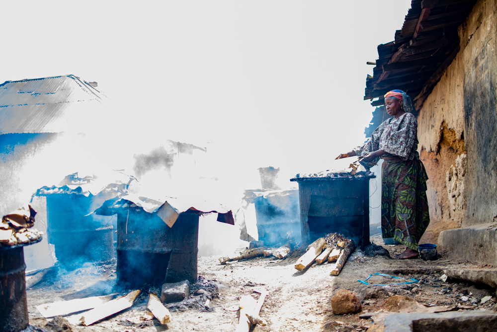 A woman processing fish in a manner that involves inhaling the fumes coming out of the ovens. This is an image of "African people at work" from Nigeria